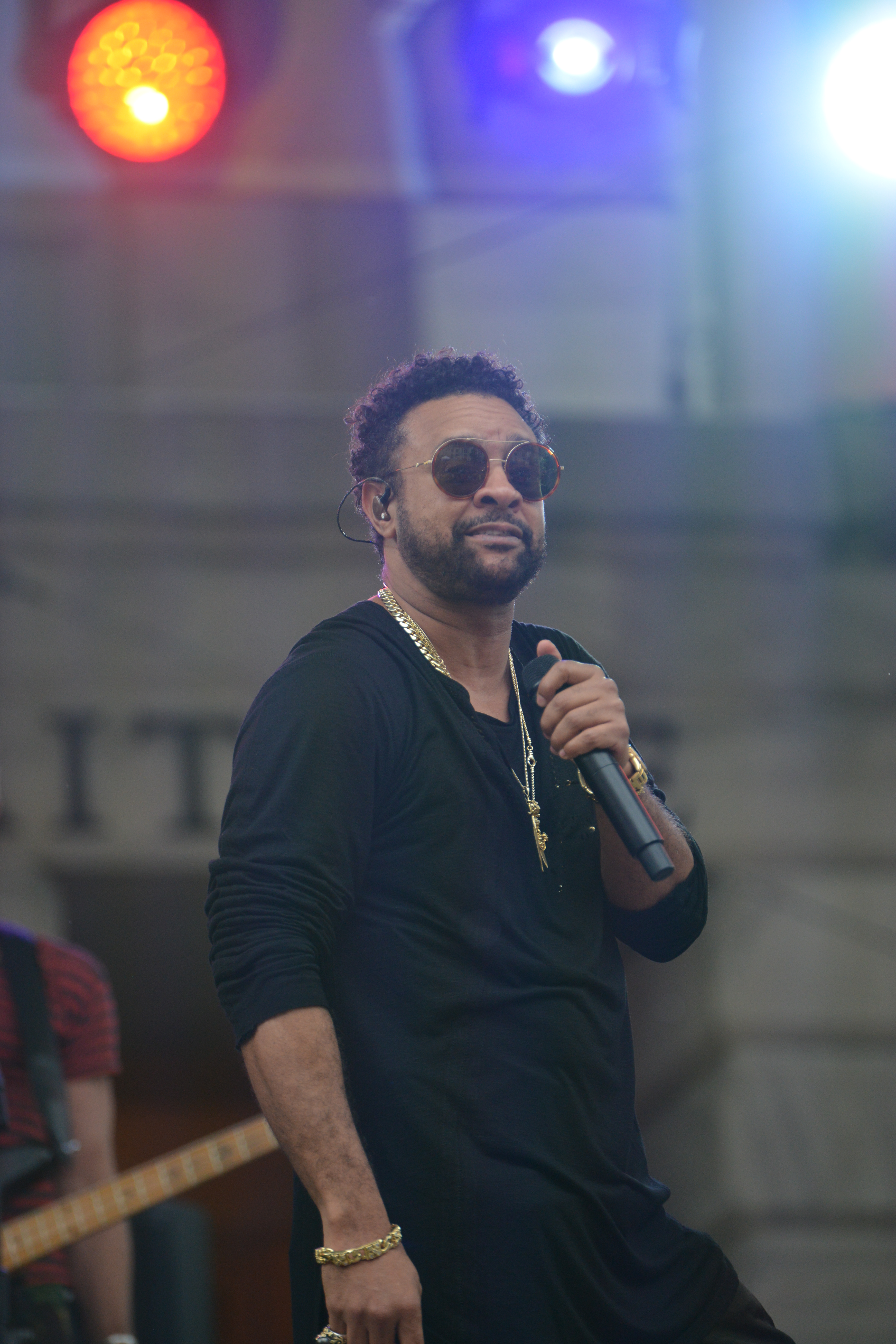 Capitals All Caps playoff Concert 2018